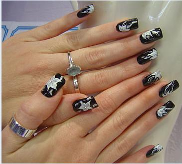 Nail art